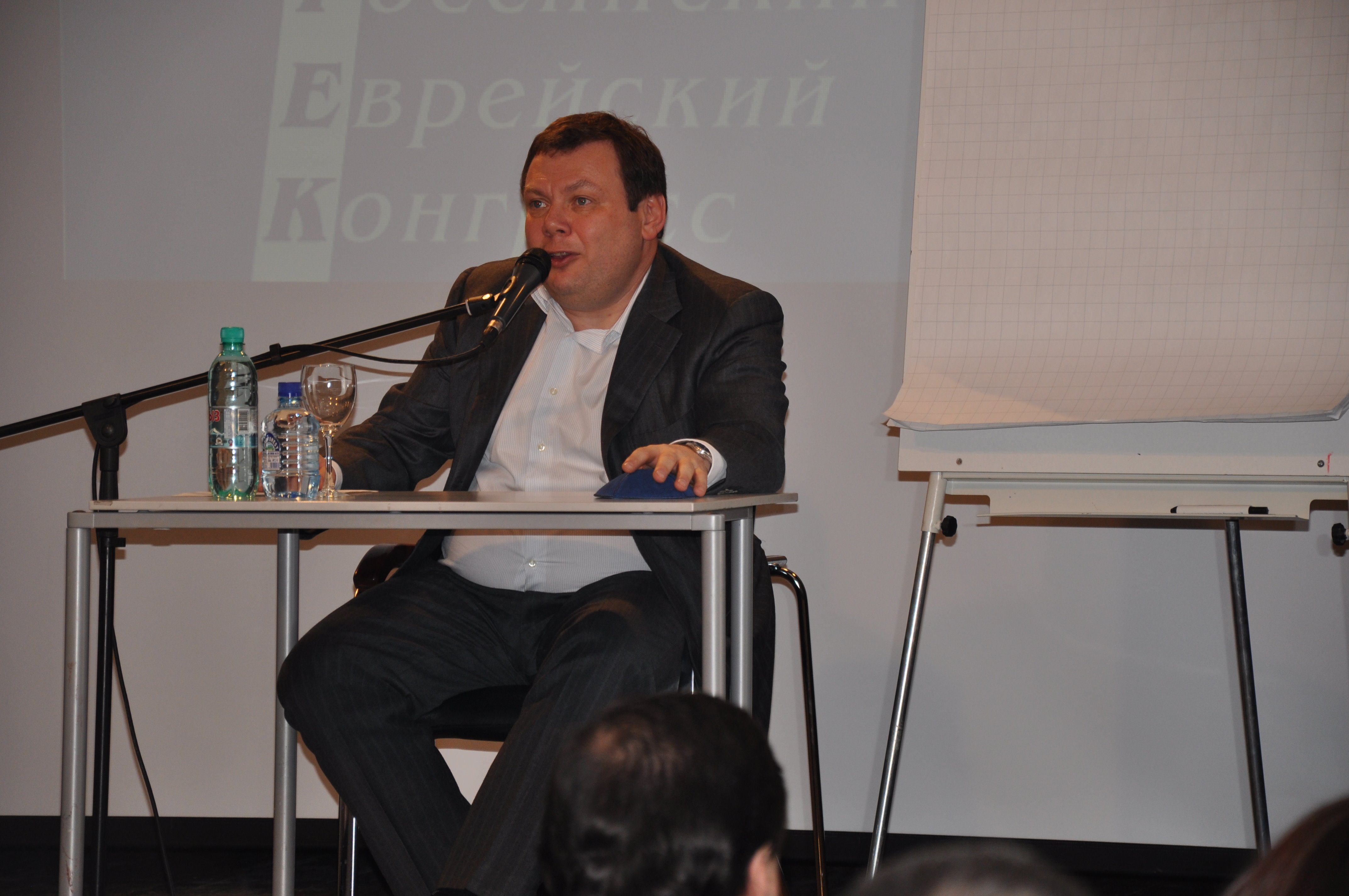 Mikhail Fridman, Russian businessman